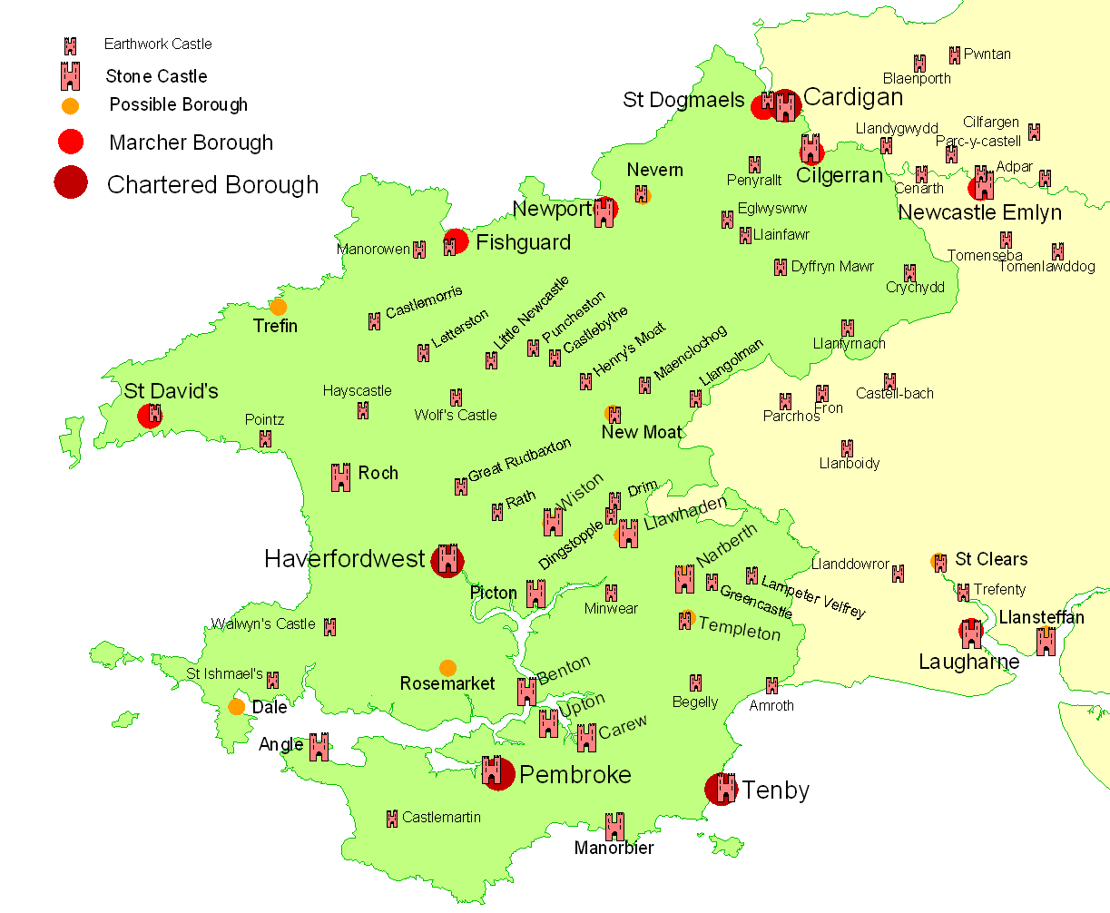 Map: Norman castles and boroughs in SW Wales: source mainly Pembrokeshire County History Also available: image:LDCyCestyllSirBenfro.png in Welsh